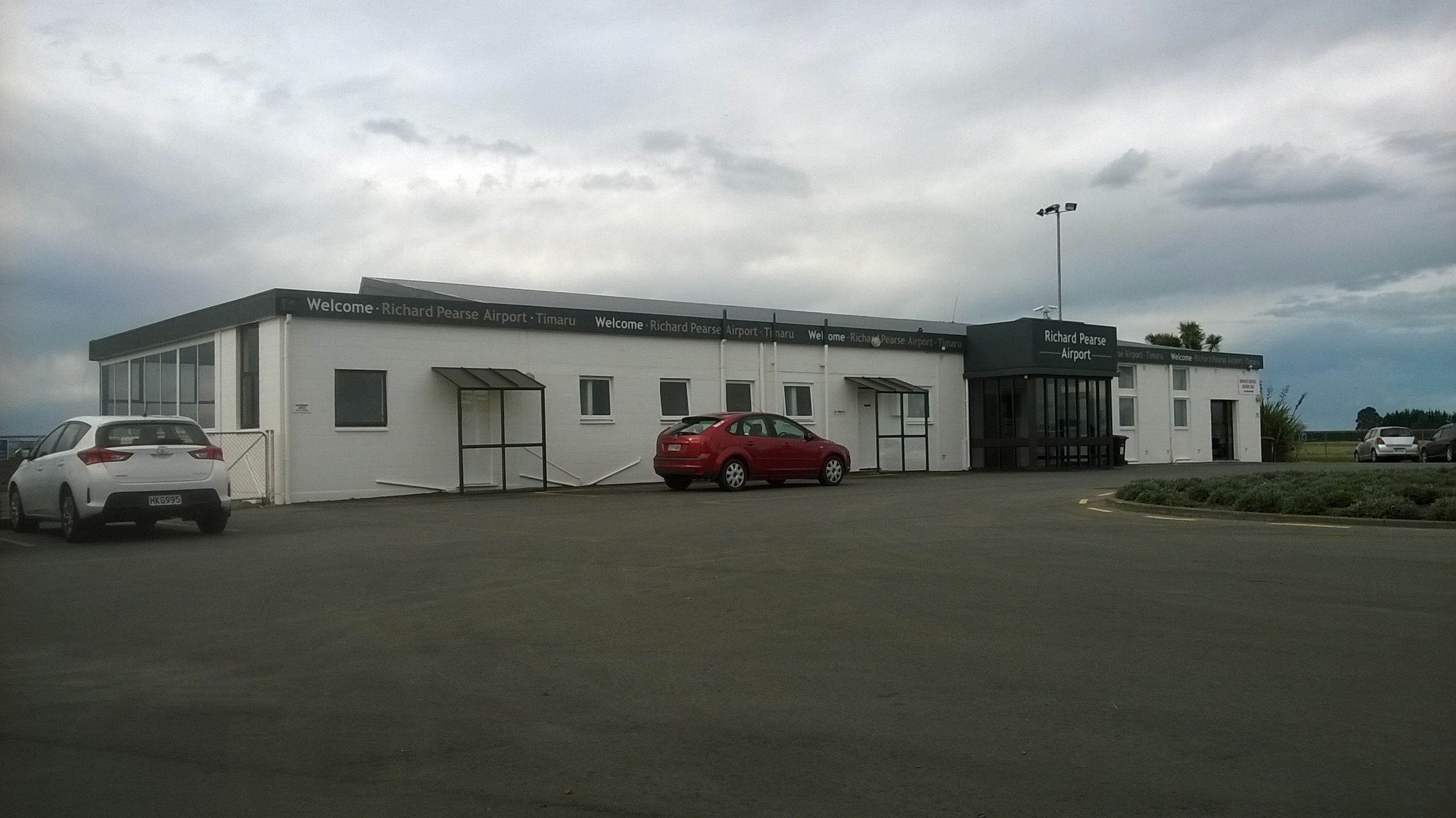 The terminal at Timaru airport